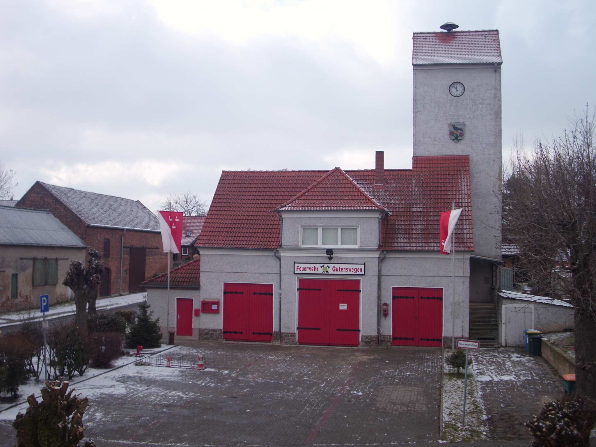 Fire Brigade of Gutenswegen